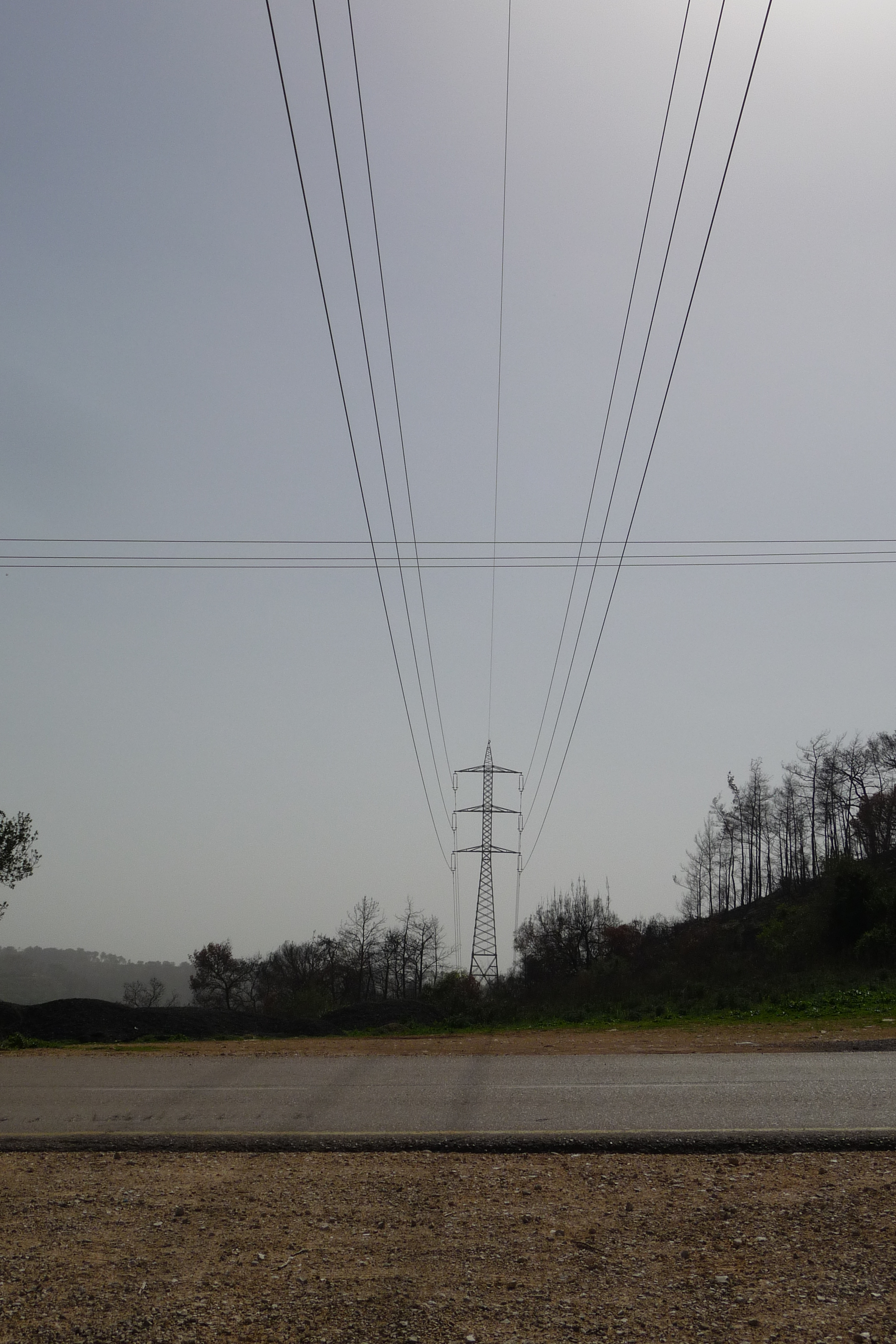 Carmel Park